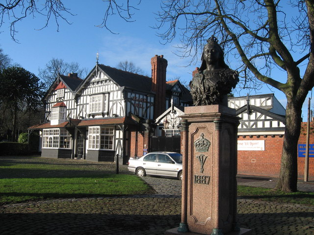 Sculpture of Queen Victoria and Black Bull, Gateacre Sir Andrew Barclay Walker (who gave the Walker Art Gallery to Liverpool) placed the bronze bust to commemorate Queen Victoria's golden jubilee in 1887. It was sculpted by her nephew Count Gleichen. He also gave the Black Bull pub its mock tudor fascia.